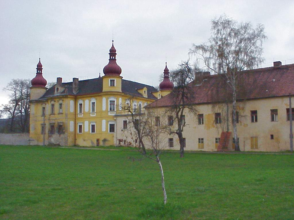 castle in Krásné Březno